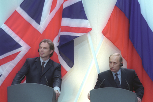 LONDON. Addressing a joint news conference with British Prime Minister Tony Blair.